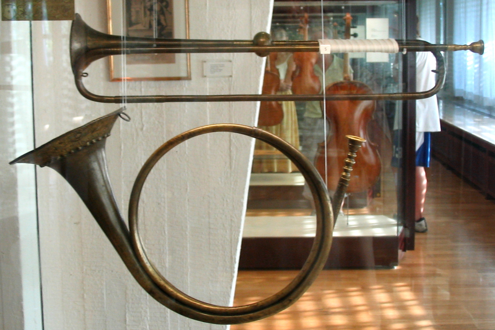 Baroque trumpet and natural Horn. Museum of Musical Instruments. Berlin